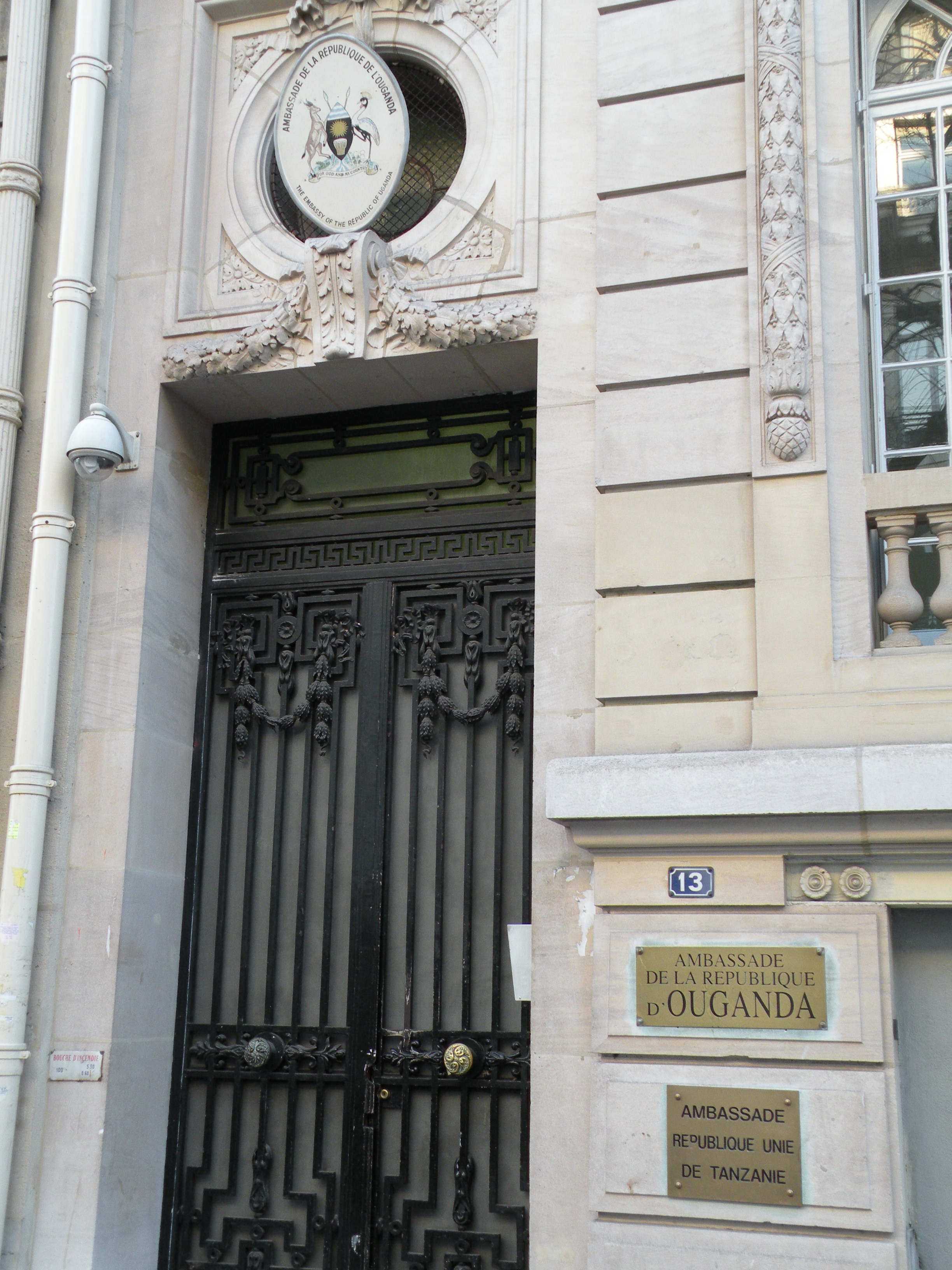 Tanzanian and ugandan embassies in France, Paris